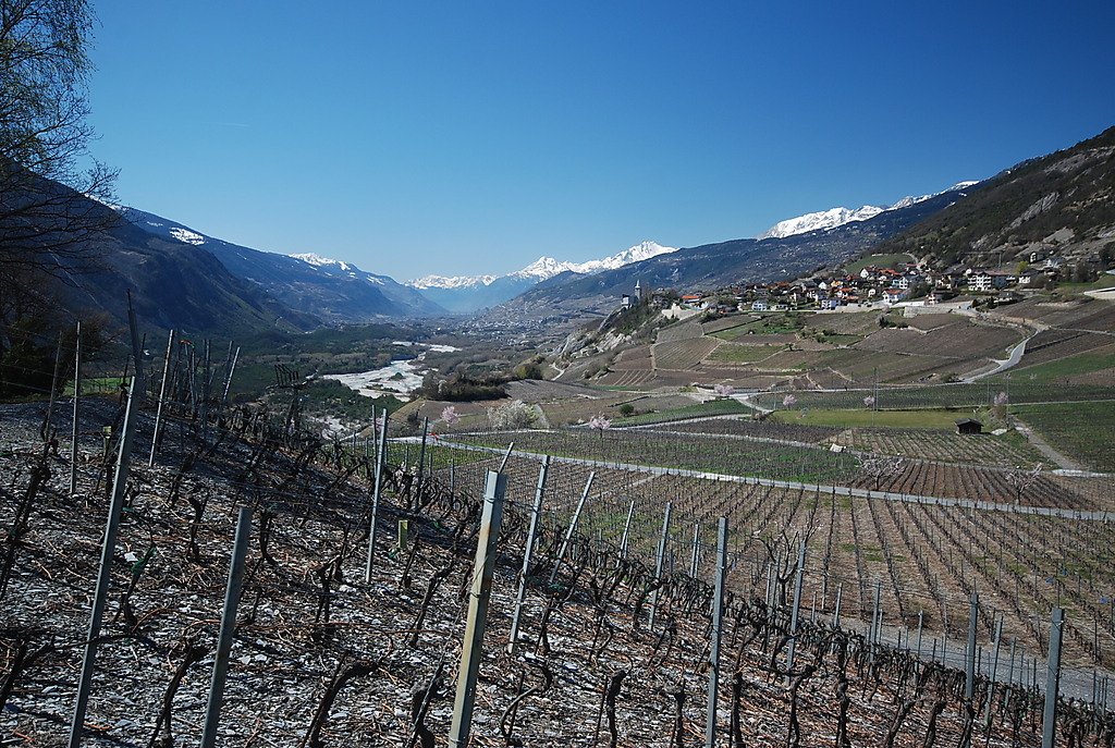 Vineyards in Varen, Valais, Switzerland